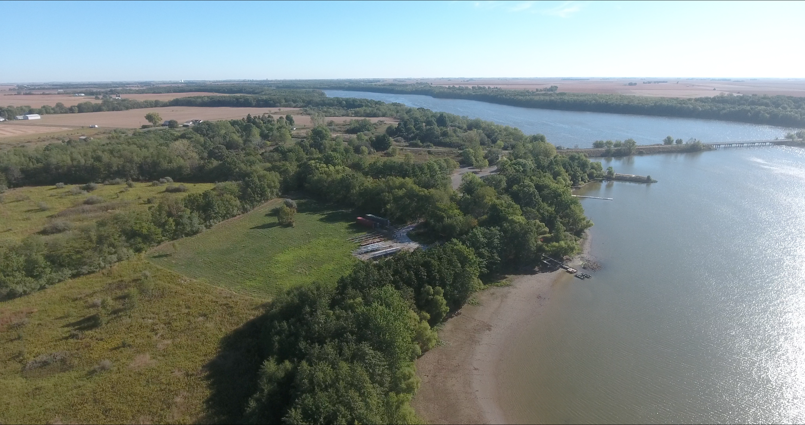 Drone footage of Clinton Lake. Illini Rowing's home base for practices and regattas, the Clinton Lake Rowing Center, can be seen near the center of the photo along the shore.